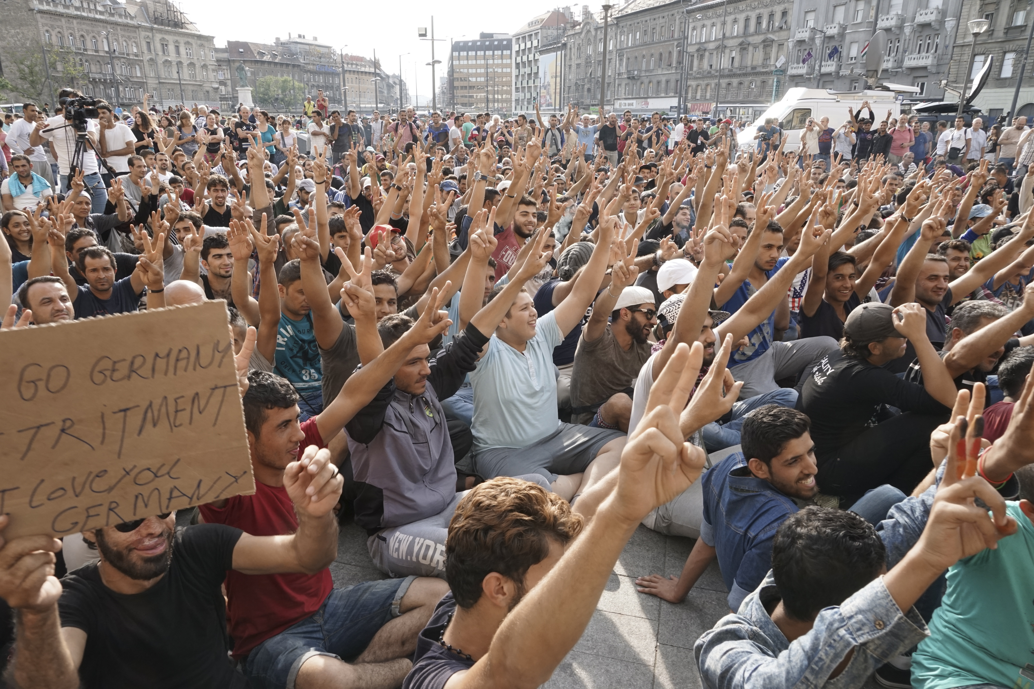 Syrian young males refugees strike in front of Budapest Keleti railway station. Refugee crisis. Budapest, Hungary, Central Europe, 3 September 2015.